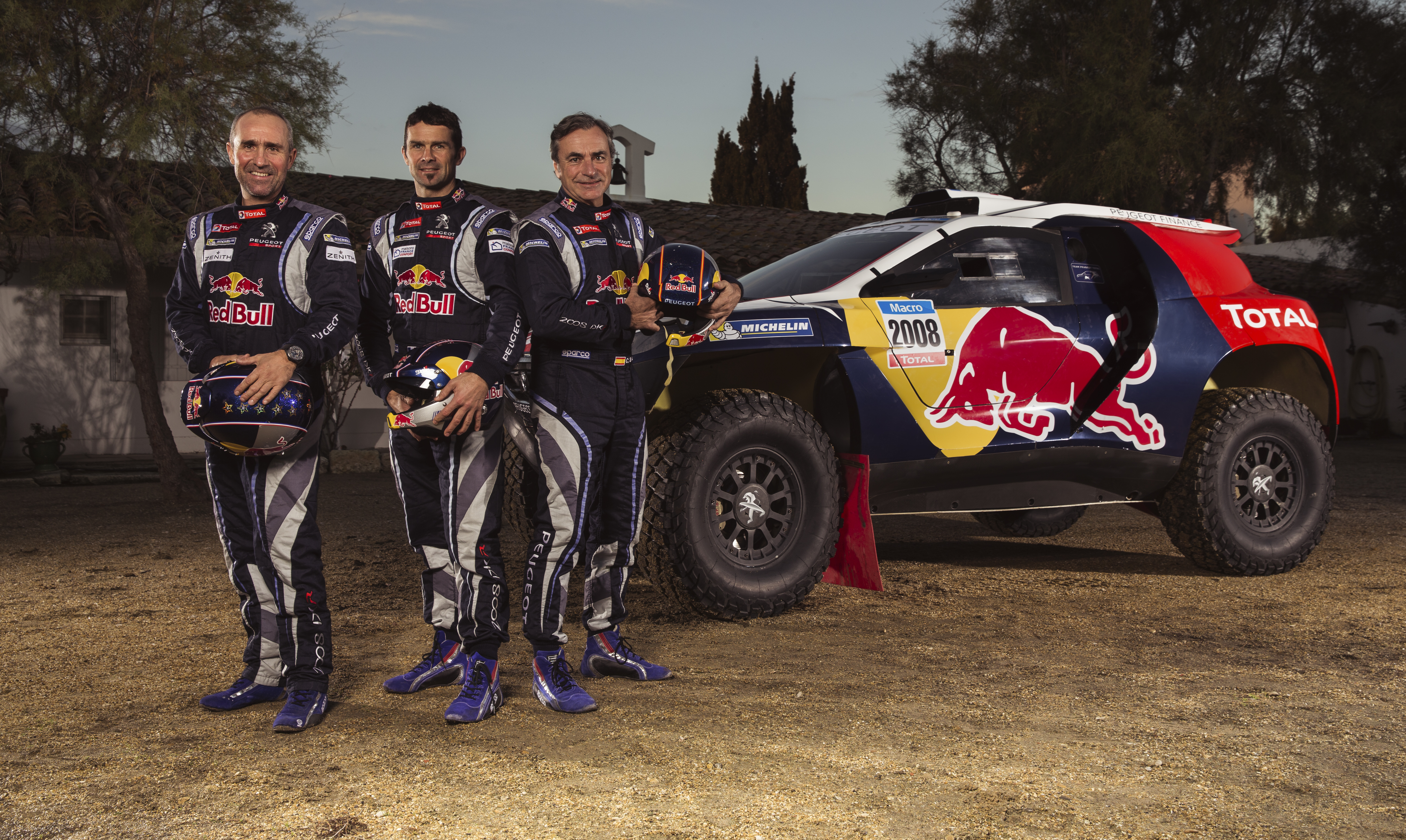 The Peugeot 2008 DKR. Peugeot's challenger in the 2015 Dakar Rally. Drivers from left to right: Cyril Despres, Stéphane Peterhansel and Carlos Sainz.